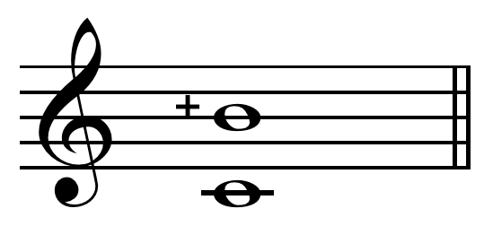 Pythagorean major seventh on C = B+ (Ben Johnston's notation). 243:128 = 1109.78 cents. Limit: 3-limit.